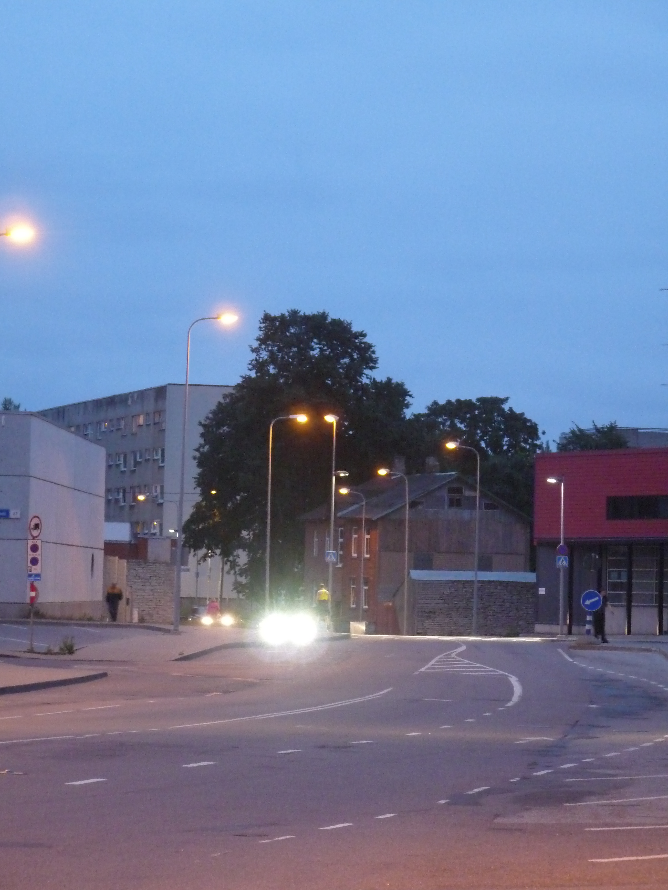 Pallasti street in Tallinn, Estonia